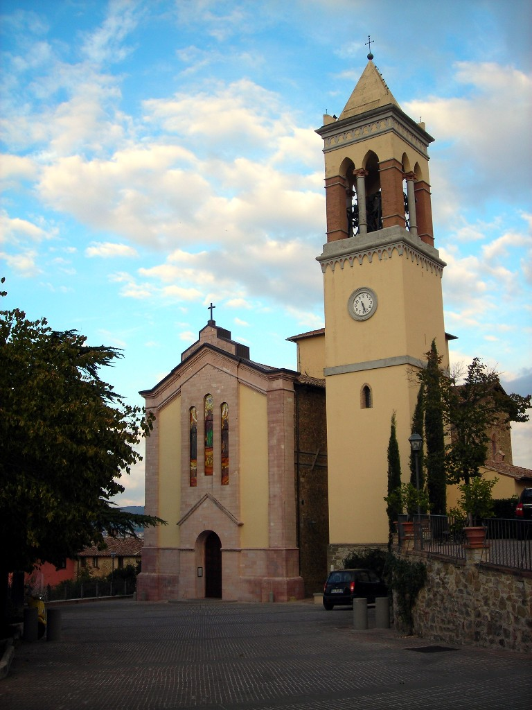 Church of St Bartholomew, Solomeo, Corciano, Perugia, Umbria, Italy